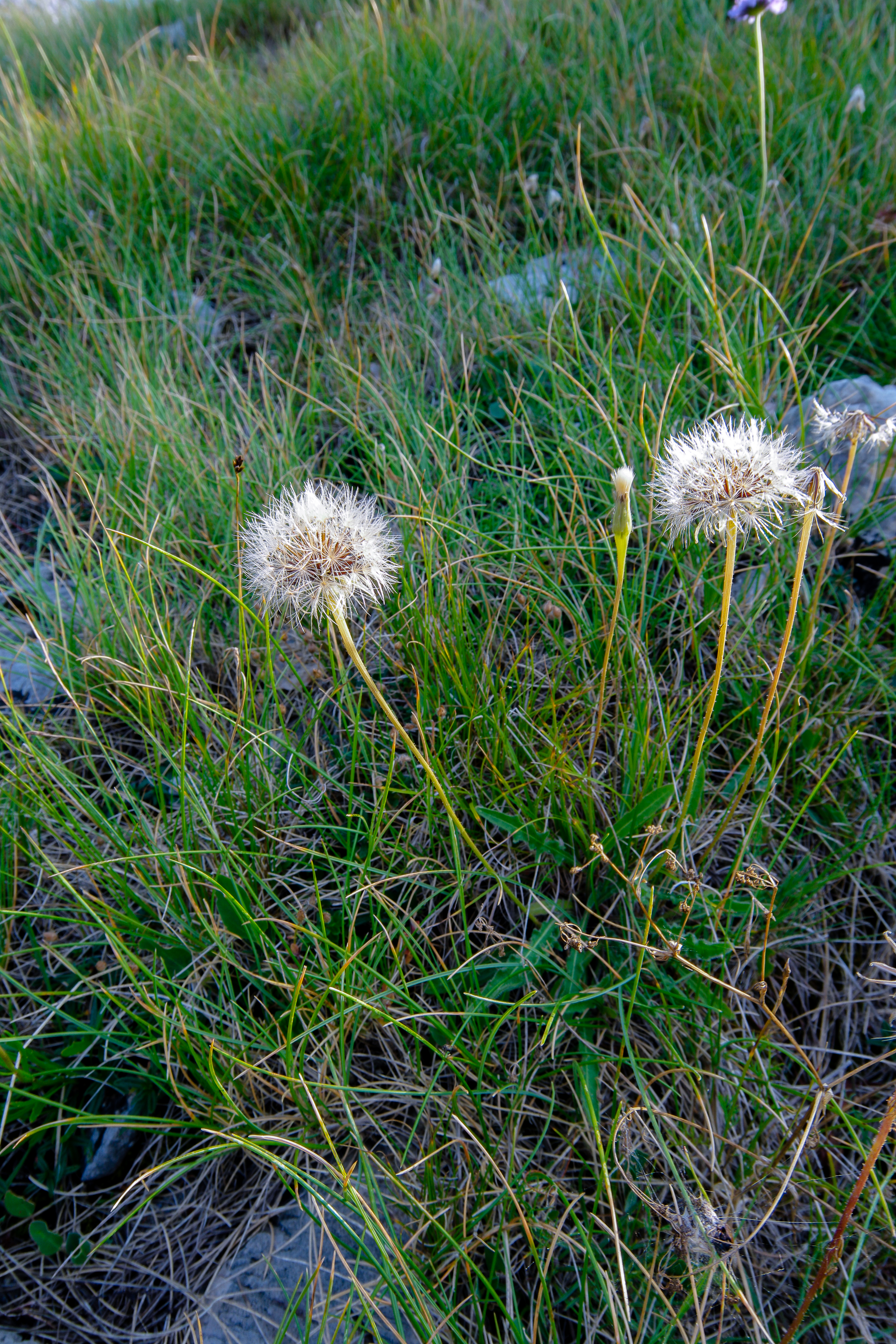 Leontodon crispus agg.